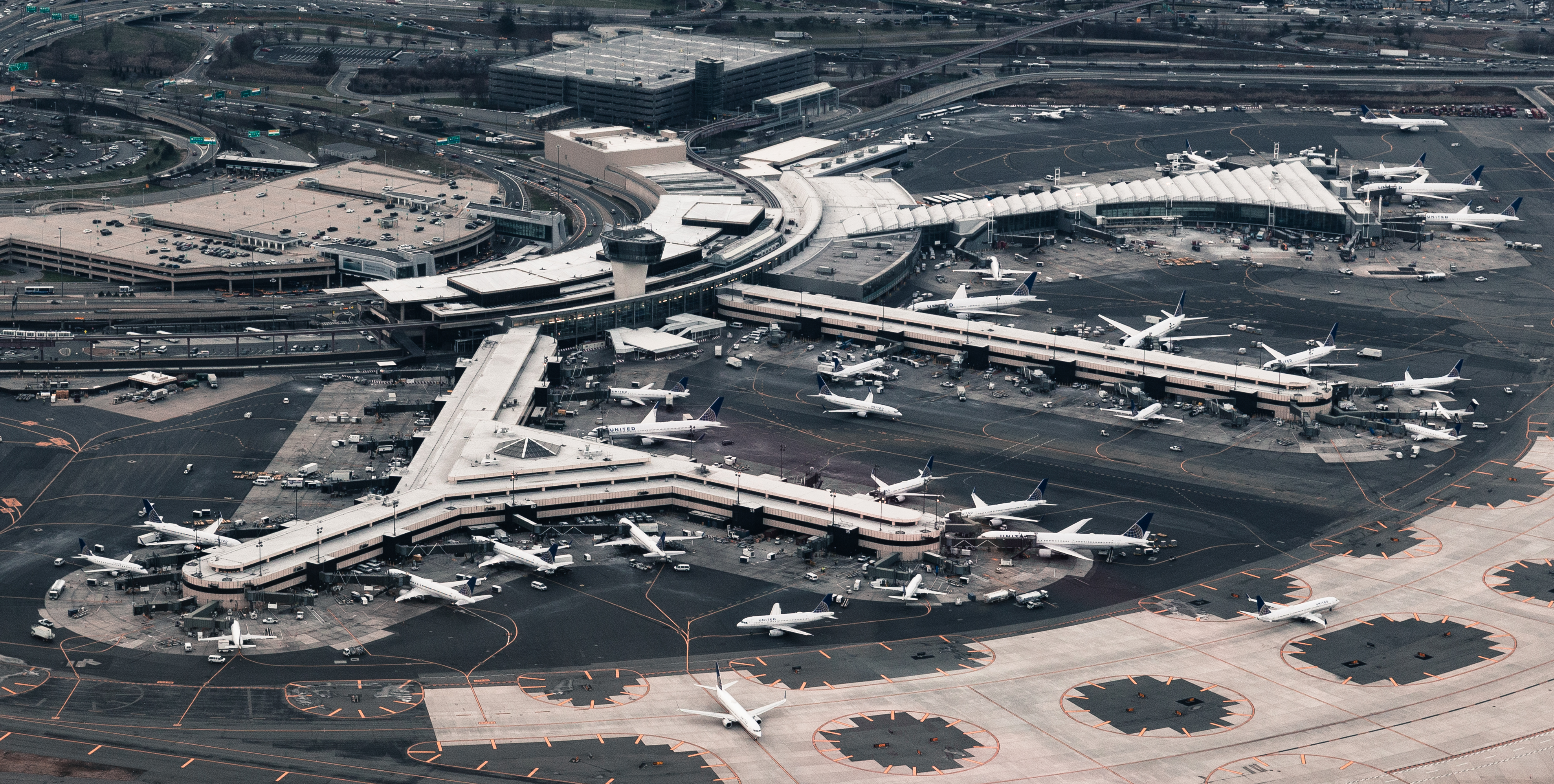 Newark, United States